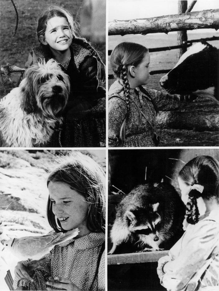 Publicity photo of child actress Melissa Gilbert promoting her role on the television series Little House on the Prairie.